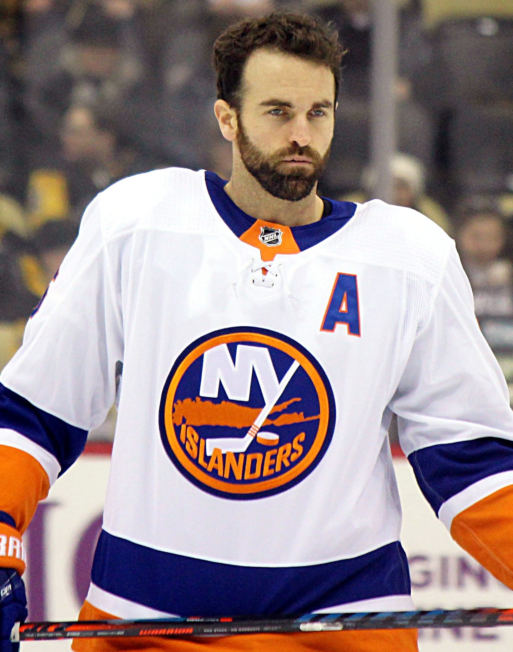 New Yorks Islanders forward Andrew Ladd during a game against the Pittsburgh Penguins at PPG Paints Arena in Pittsburgh, PA. Saturday, March 3, 2018.